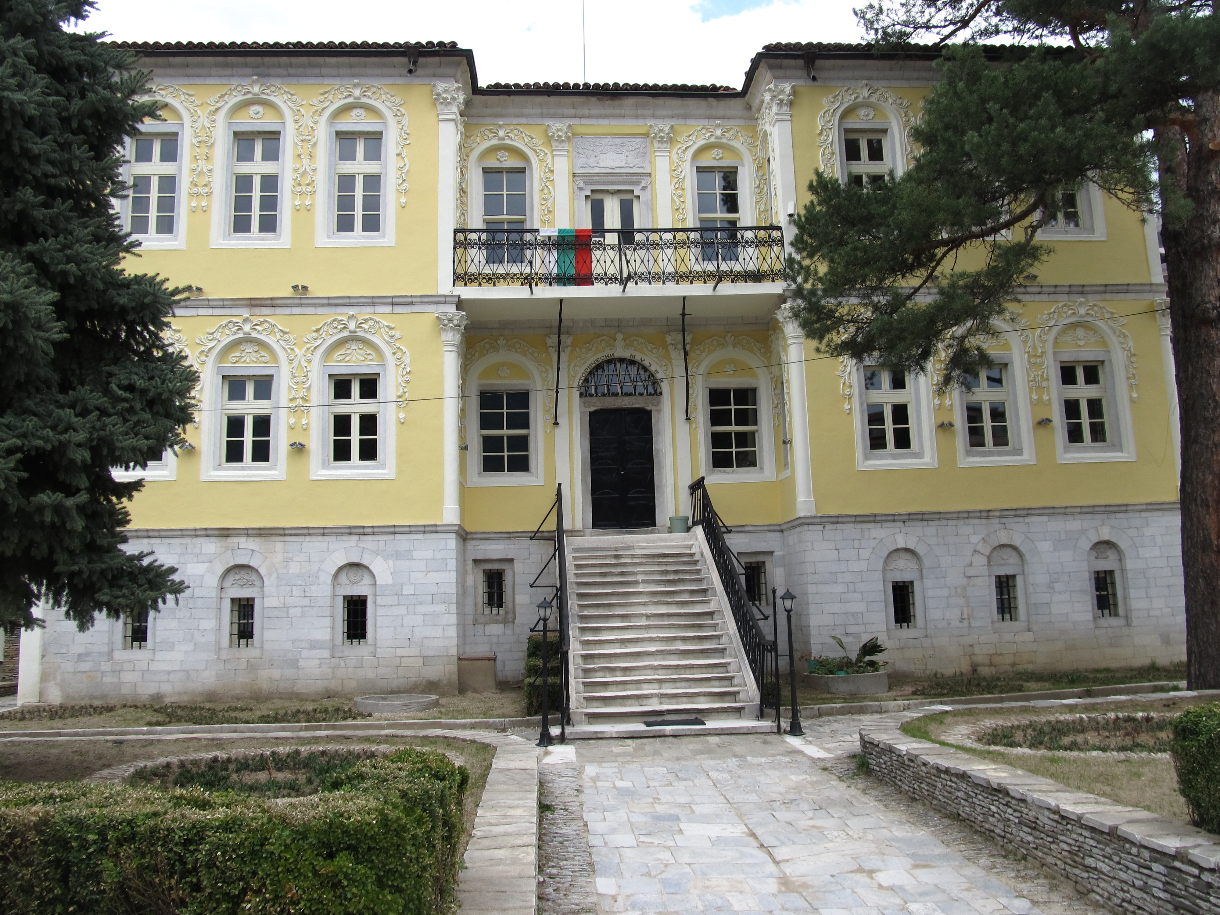 Municipal Historical Museum town of Gotse Delchev, Bulgaria